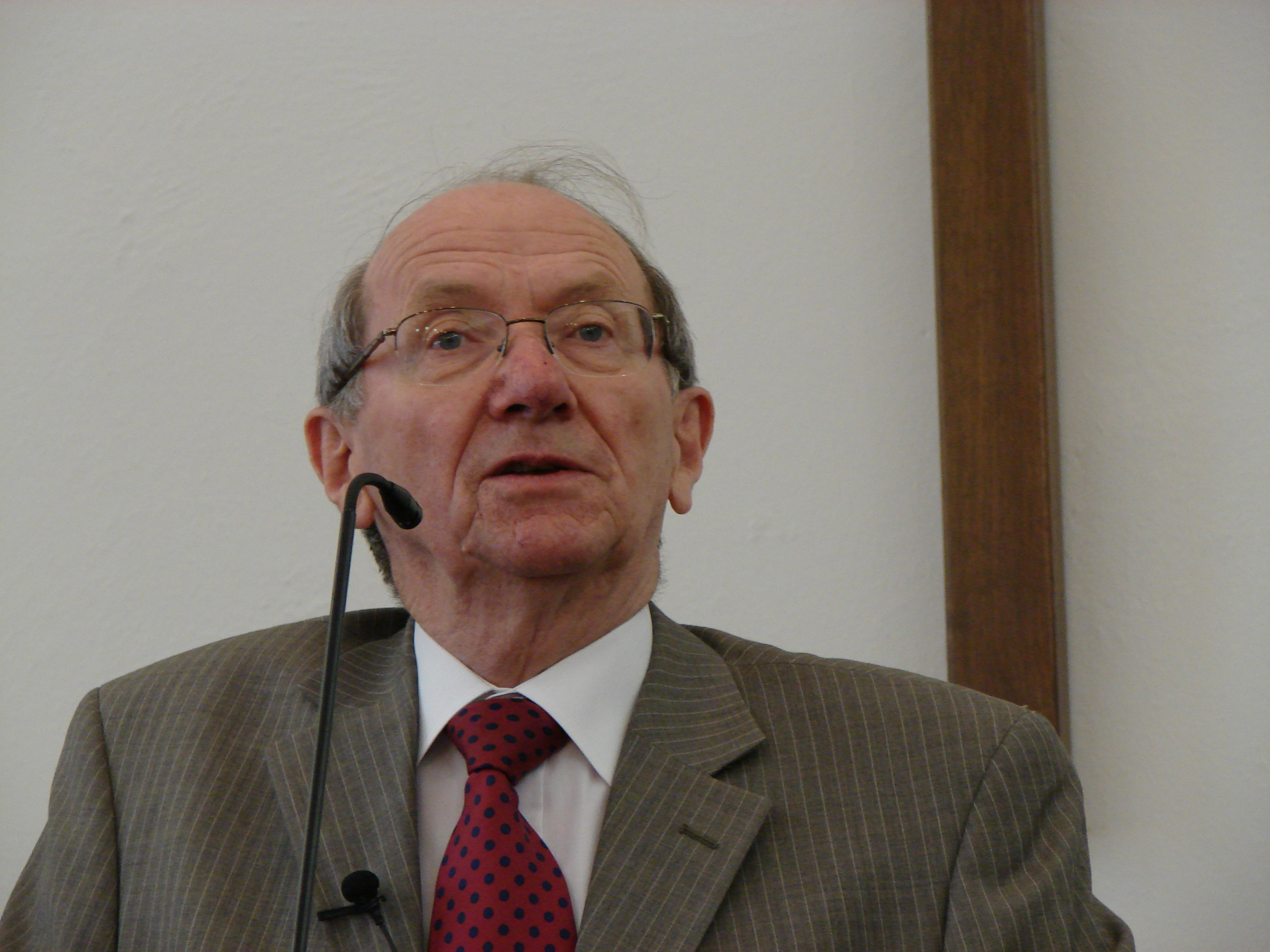 Iain Murray leading a bible conference at Draper's Valley Presbyterian Church, Draper's Valley, Virginia USA, on 30-May-2009.